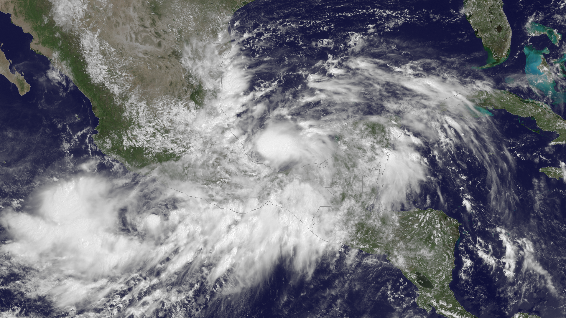 Tropical Storm Ingrid on September 13, 2013